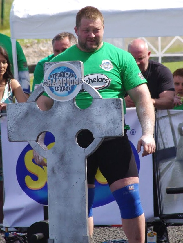 Alexander Klyushev - a strength athlete from Russia.